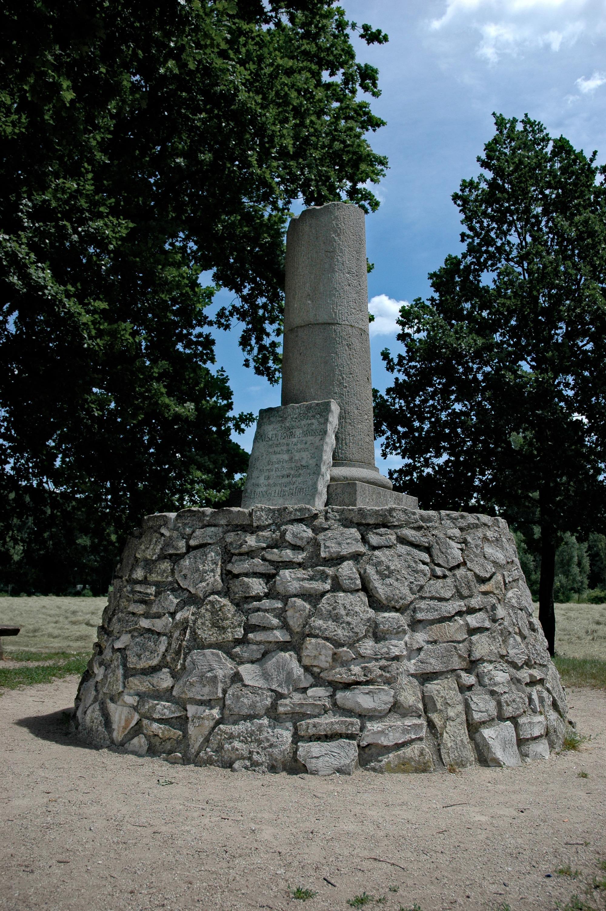 The Kapellenruh in Fürth, legendary foundation place of the city